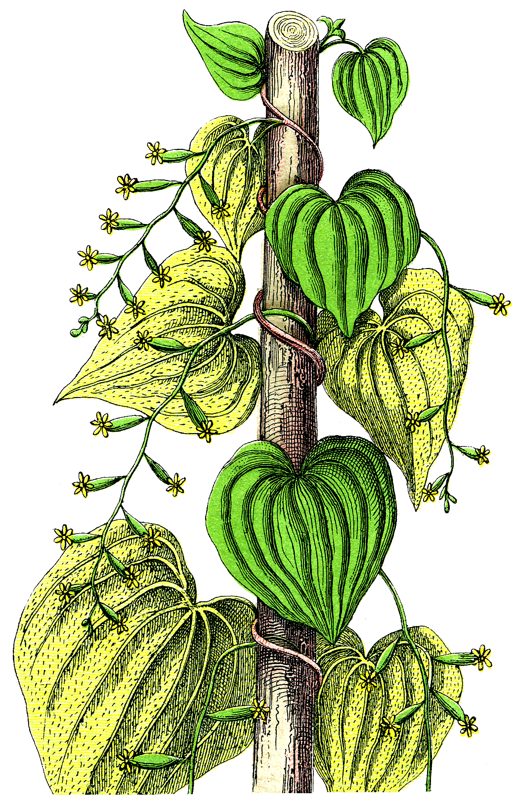 Dioscorea alata, illustration from «Naturgeschichte des Pflanzenreichs», table XLIX (fragment)